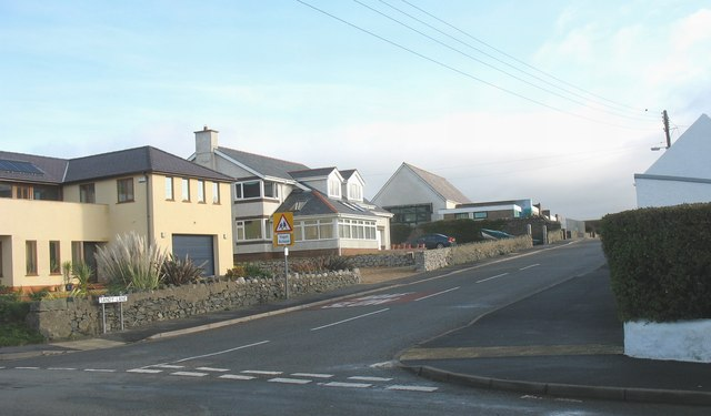 Sandy Row from Station Road The third building on the left is the village primary school - Ysgol Rhosneigr.